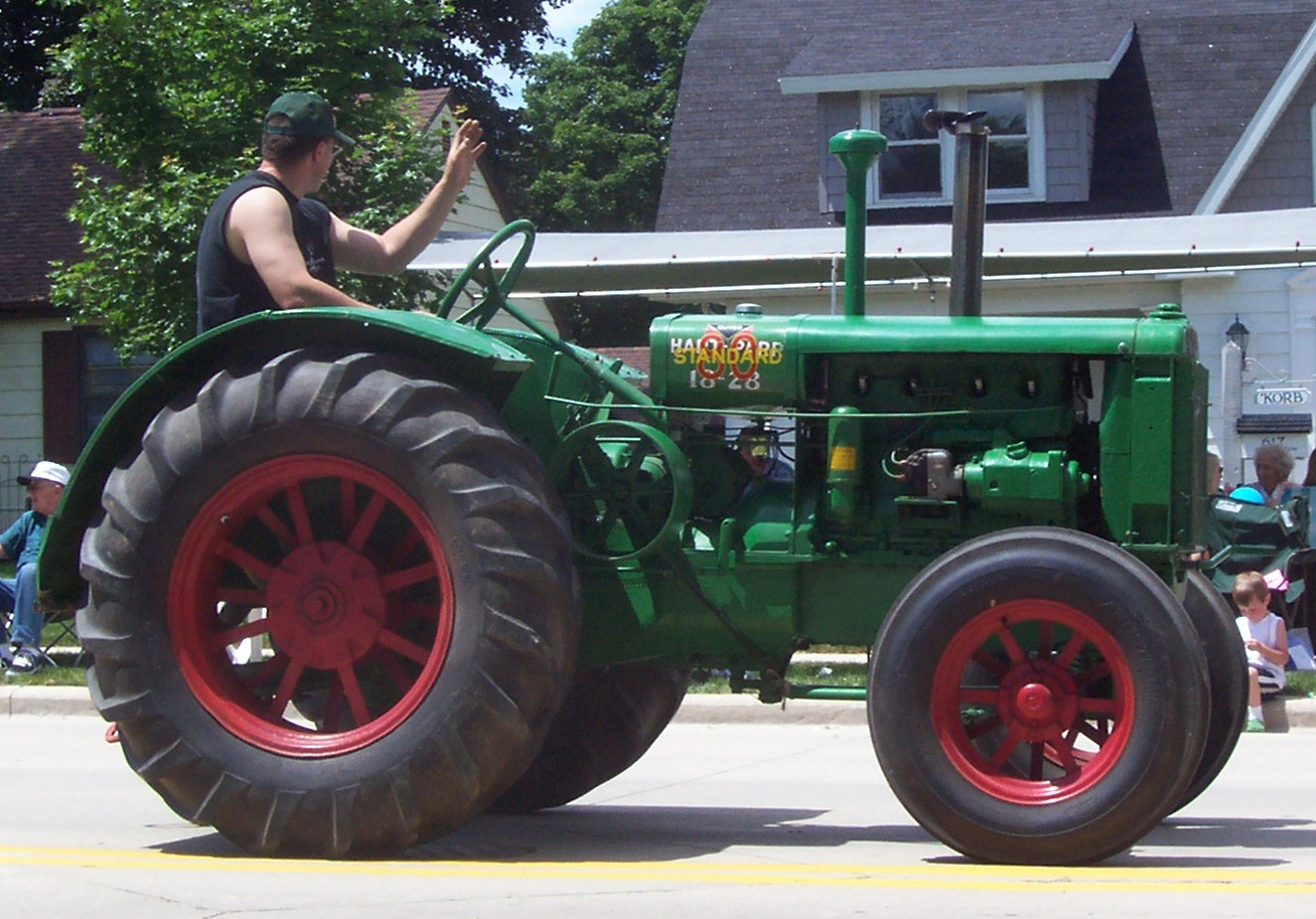 An Oliver 80 tractor at the Chilton, Wisconsin parade on June 15, 2008.